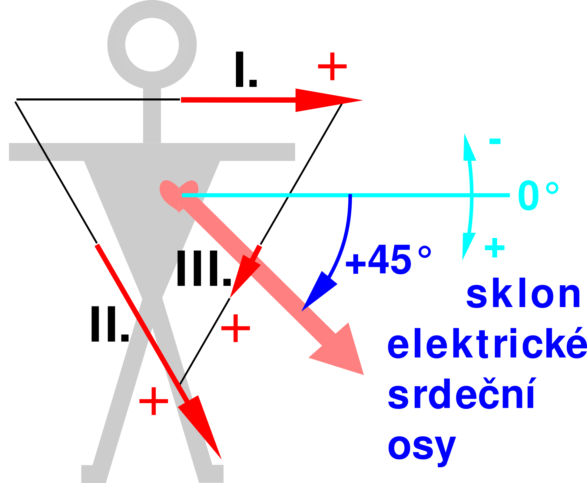 ECG principle: Einthoven triangle and the angle of the heart electric axis (for example, 45°) Text in Czech language.